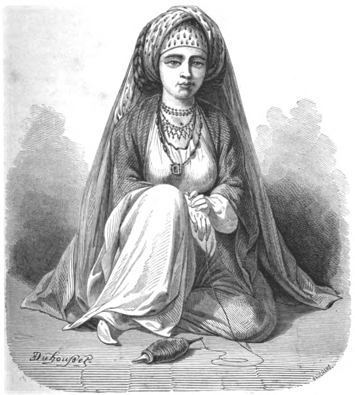 Young Illyate of Varamin.